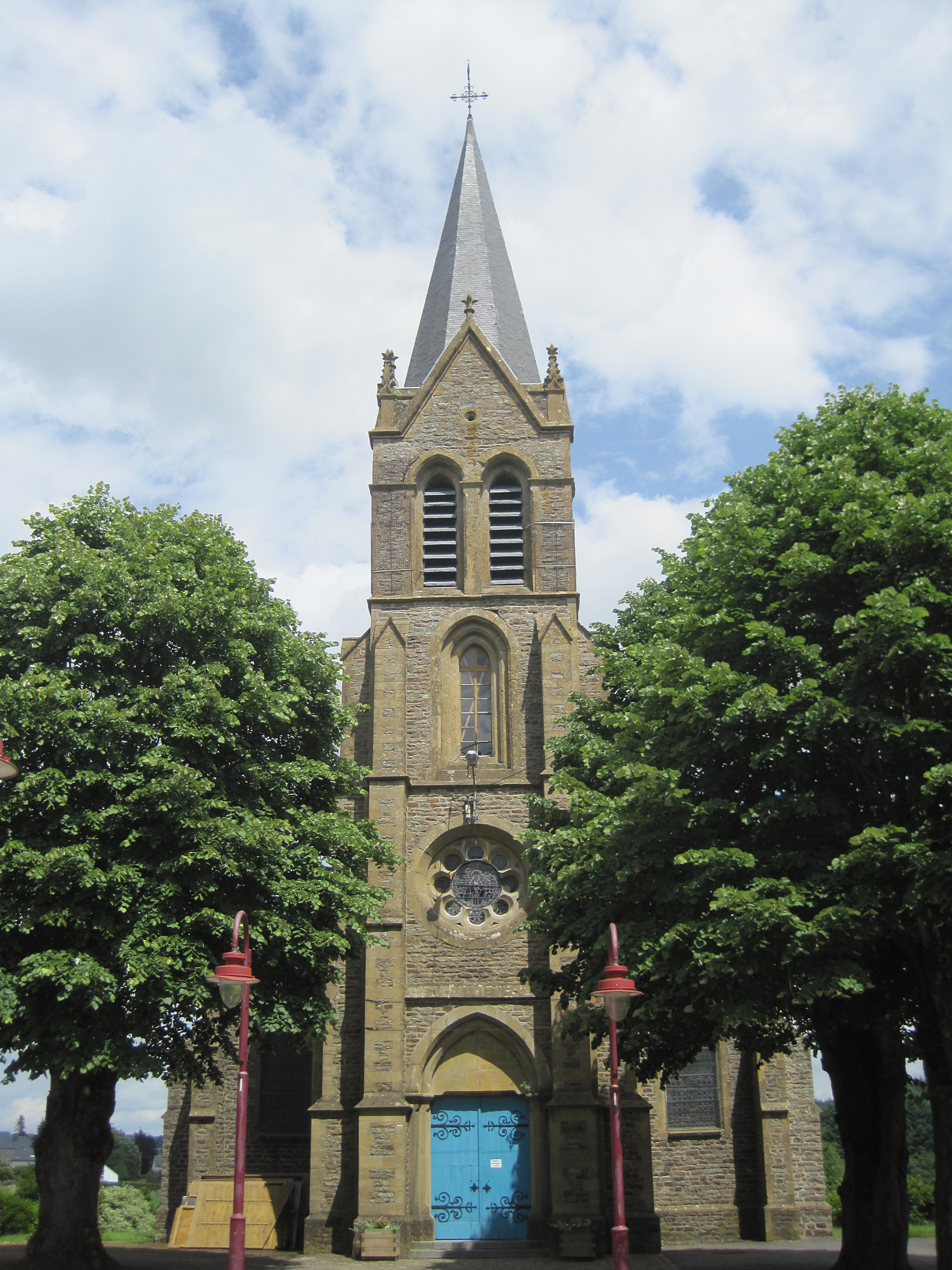 Hatrival (Belgium), the Saint Ursmar's church.